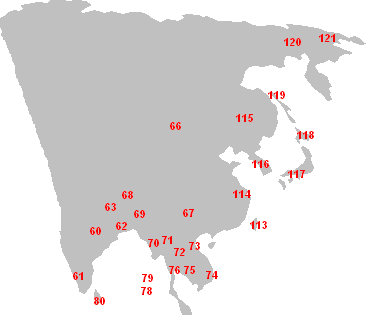 Distribution of standard cross-cultural sample cultures in Asia